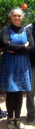 Picture taken in the garden at the location of Geometric, Algebraic and Topological Methods for Quantum Field Theory Villa de Leyva Summer School – 2017.